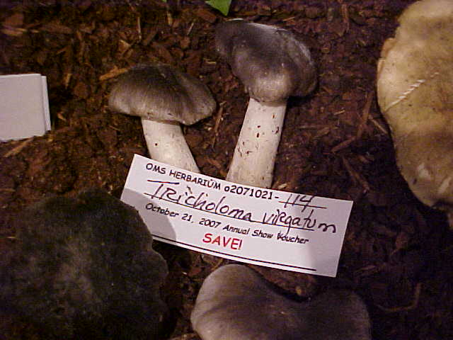 Tricholoma virgatum (Fr.) P. Kumm. Location: Portland, Oregon, USA Observation Notes: Identification by Dr. Lorelei Norvell, assisted by Dr. Judy Rogers. For more information about this, see the observation page at Mushroom Observer.